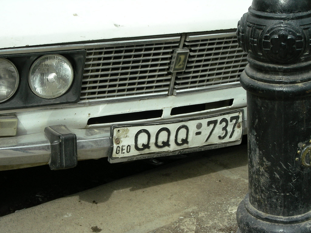 Republic of Georgia vehicle registration plate.